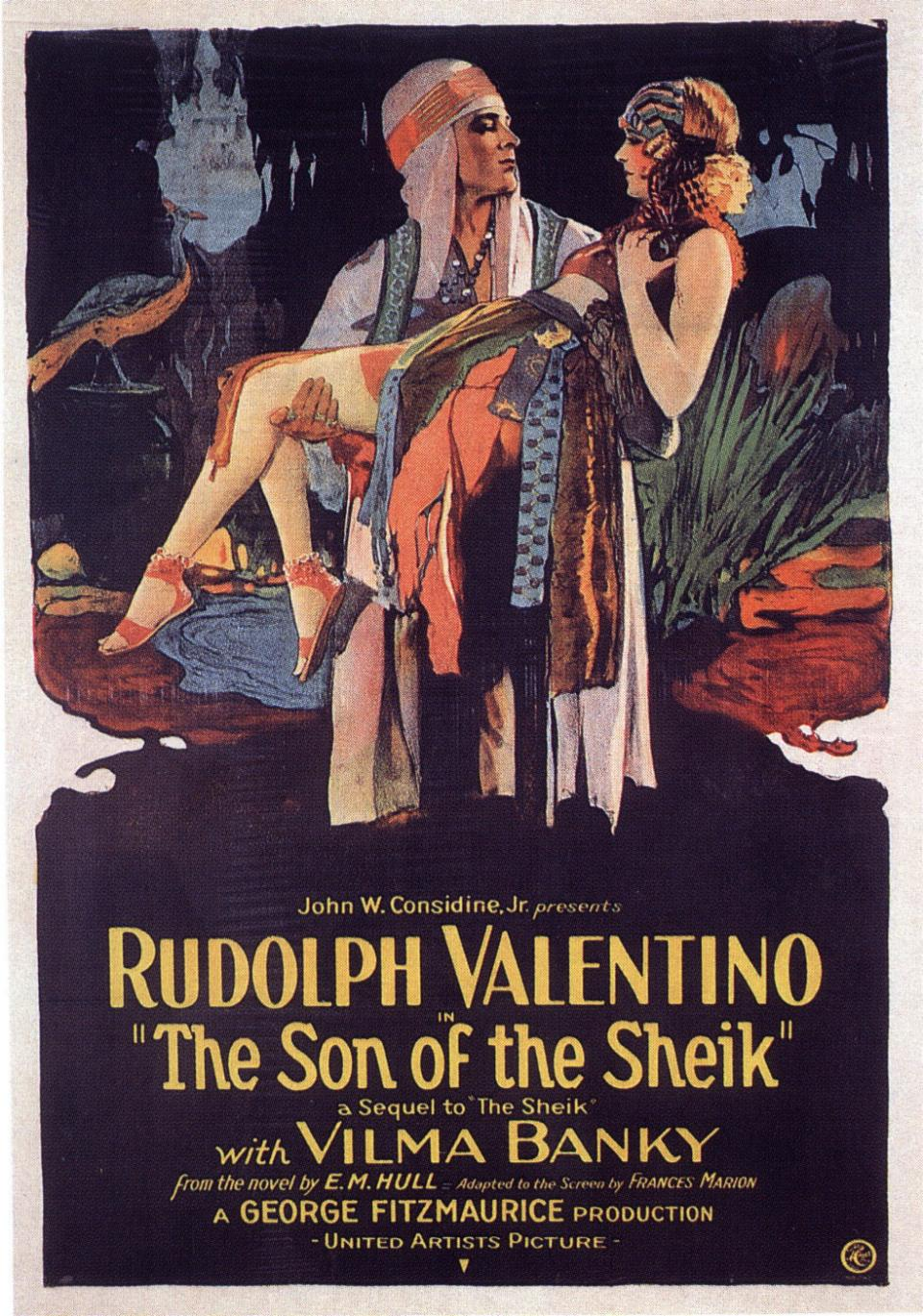 The Son of the Sheik (1926) film poster.